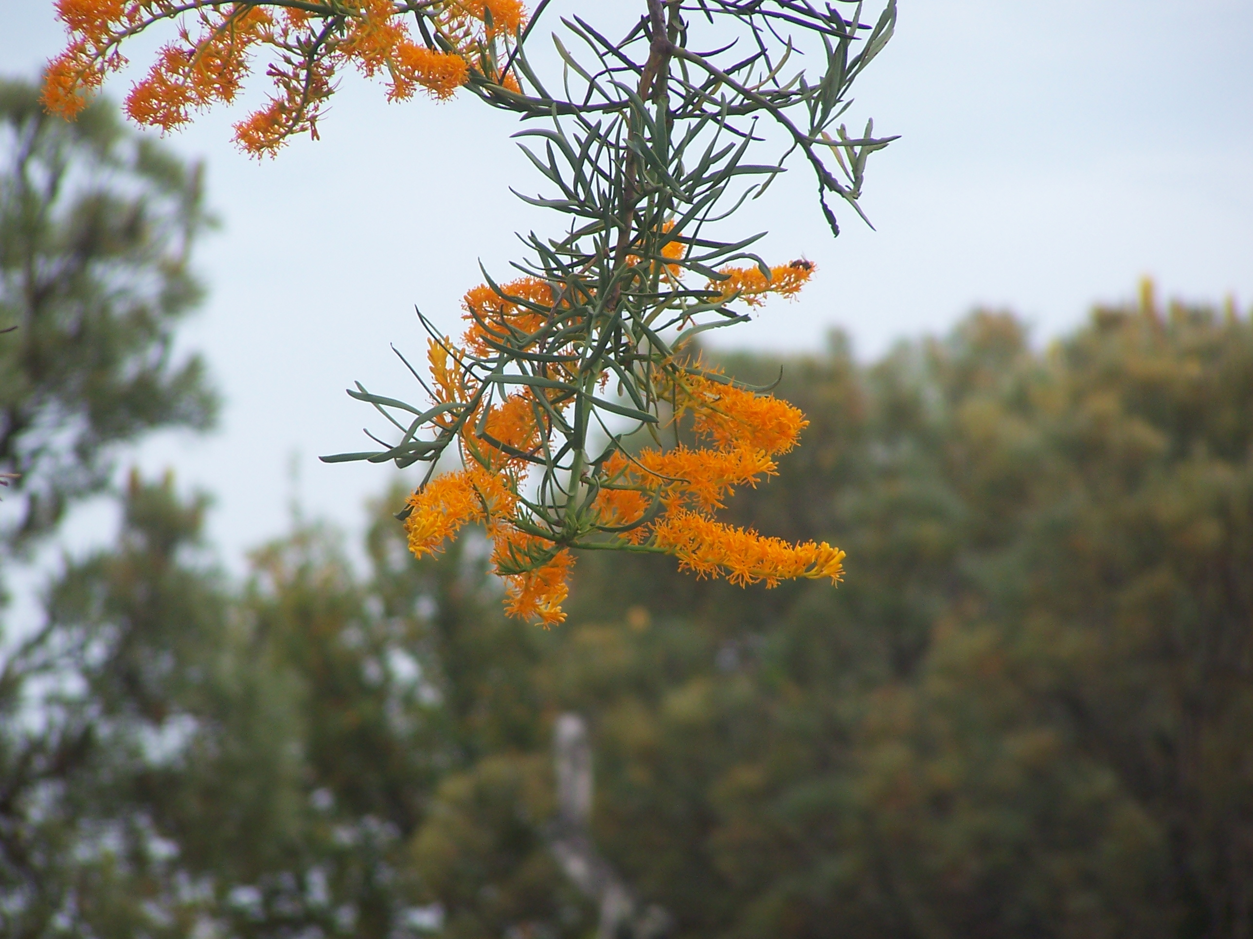 Perth The Western Australian Christmas tree (Nuytsia floribunda) is a parasitic tree found in Western Australia. It is known for its bright yellow flowers around Christmas time (summer). It can grow to 10m tall. It is a member of the Loranthaceae or mistletoe family.